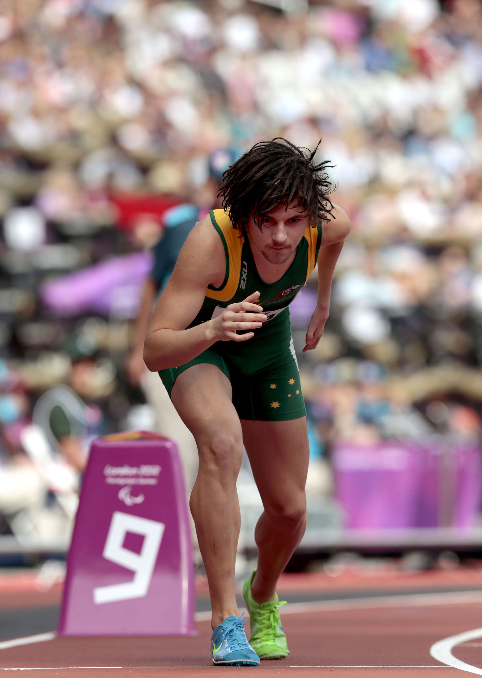 Photograph of Australian Paralympic team member Matthew Silcocks at the 2012 Summer Paralympic Games in London